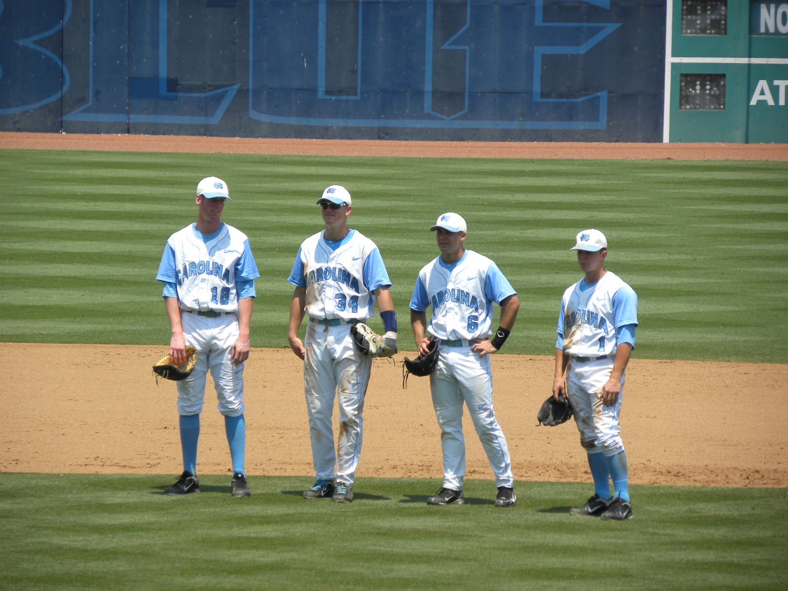 The infielders chatting during a pitching change during the 2011 ACC Baseball Tournament vs. Miami (Fla). (L-R) 3B Colin Moran, 1B Jesse Wierzbicki, SS Levi Michael and 2B Tommy Coyle